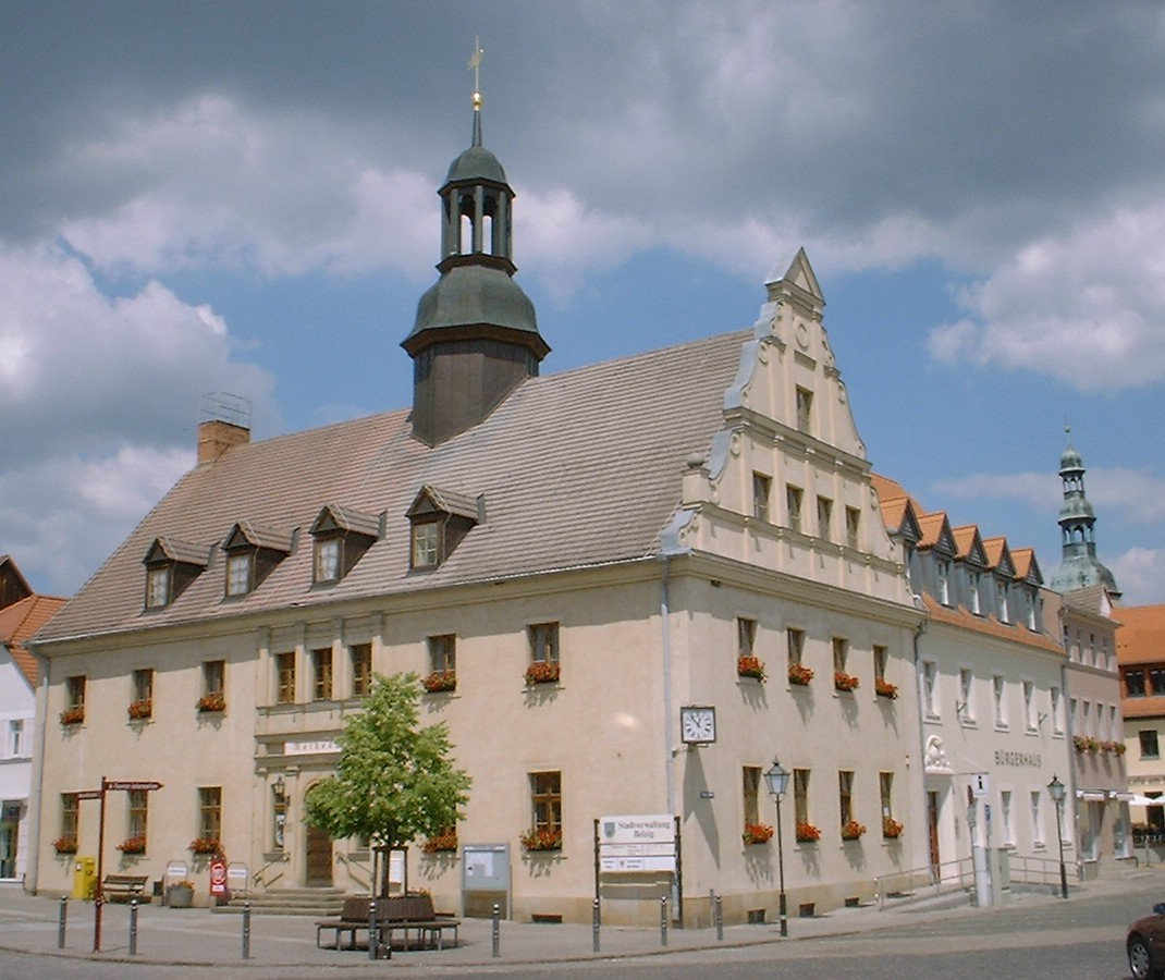 Town hall in Belzig, Germany